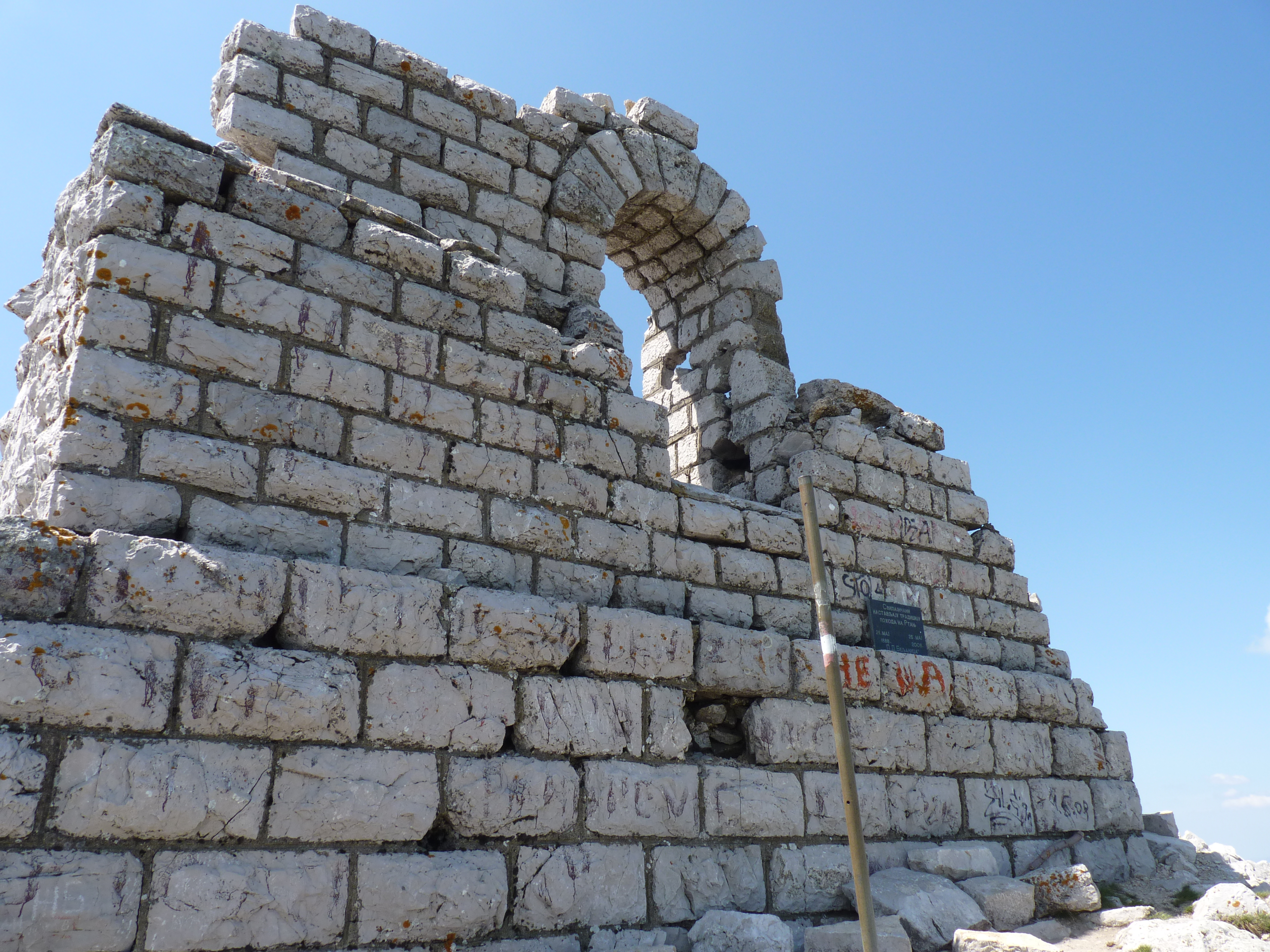 Mountain Rtanj